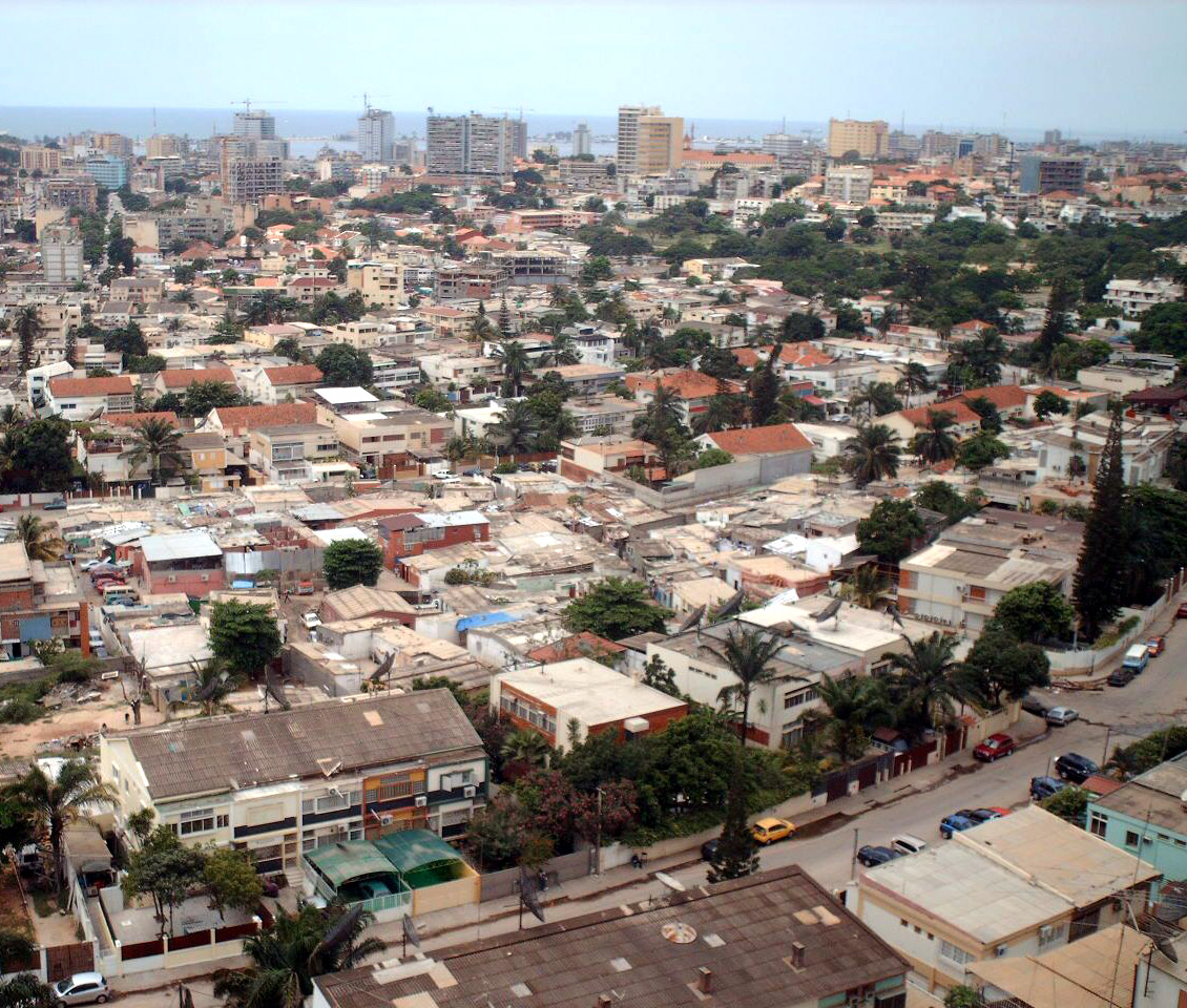 Luanda urban streetscape